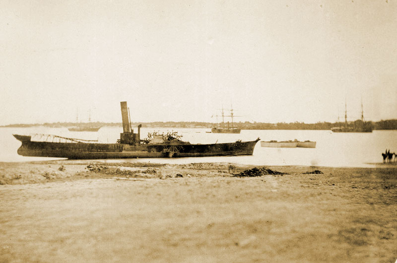 The Uruguayan steamship Villa del Salto after running aground and being set on fire by its crew. The ships in the background are probably Brazilian warships.